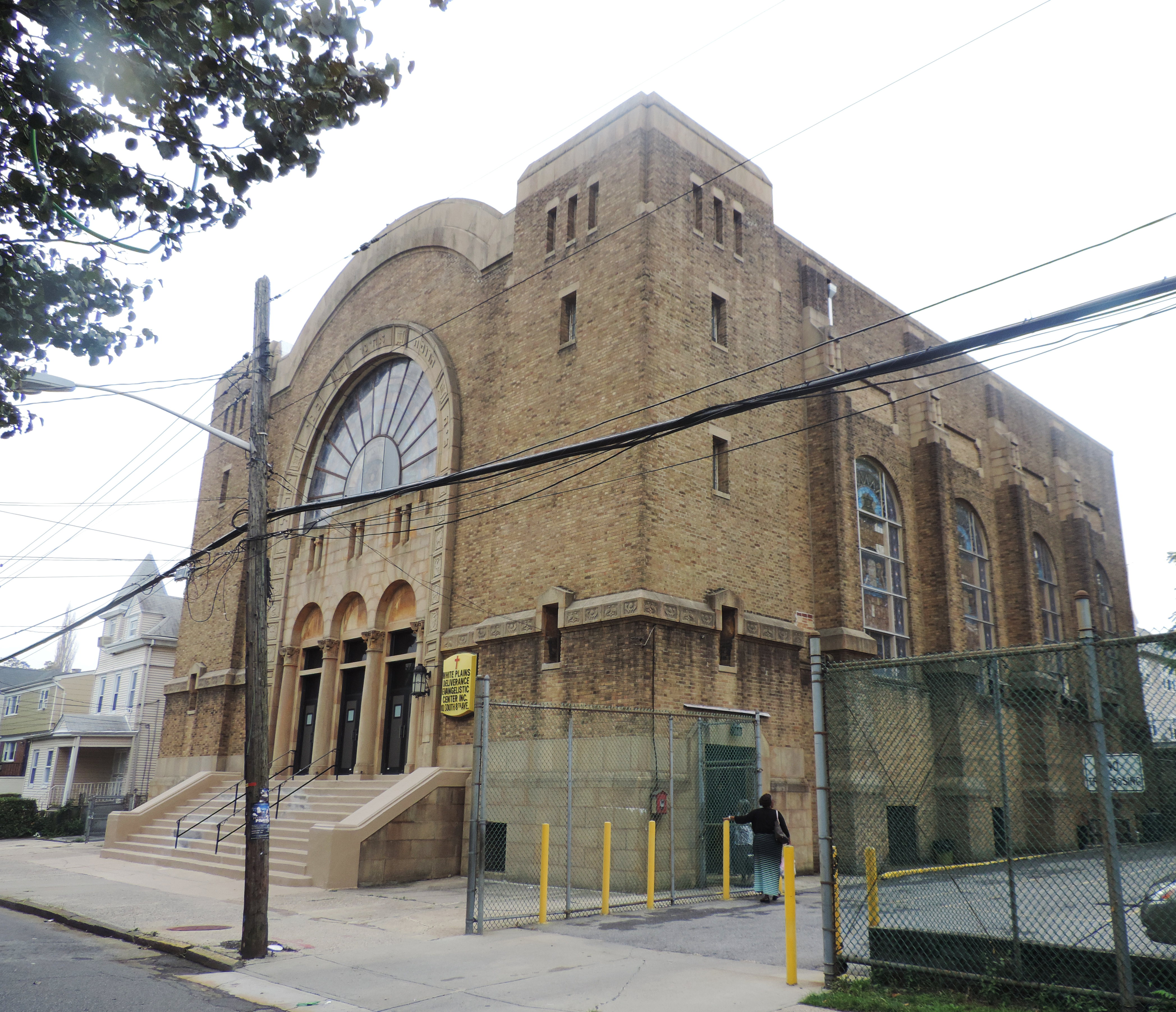 Looking south at church on a cloudy midday.